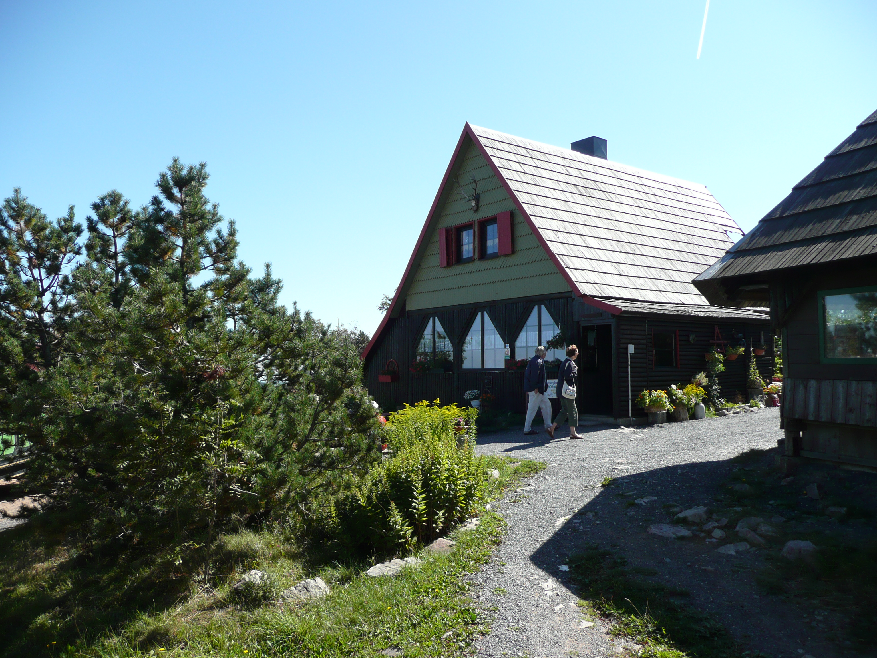 This image shows the mountain hut ("Kahlebergbaude") on top of the Kahleberg (905 m) in the Ore Mountains.